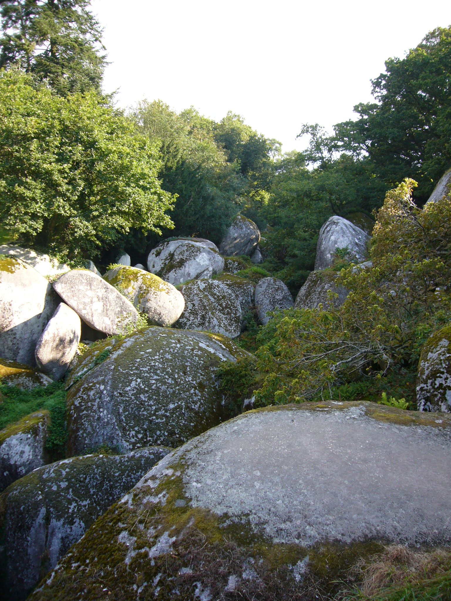 The rocks (Les rochers) at Huelgoat.